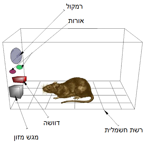 תיבת סקינר - עברית. Skinner box, a cage to perform behavioural experiments with animals